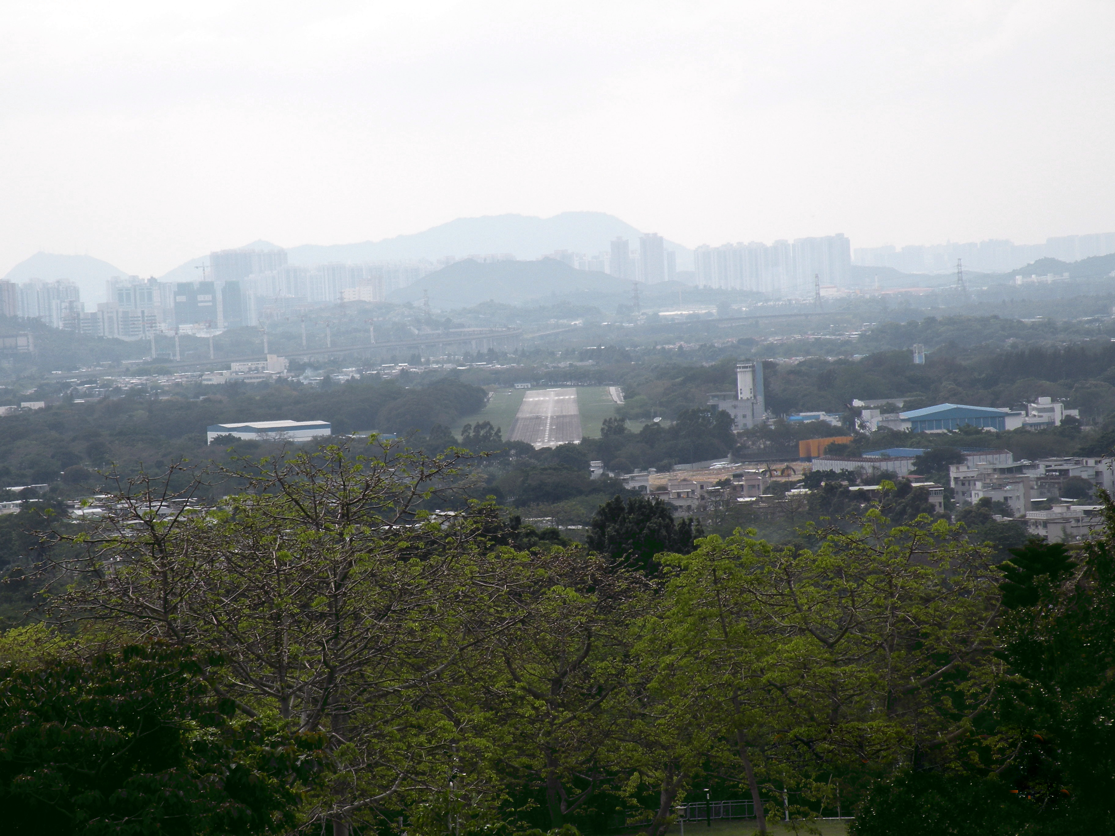 Shek Kong Airfield, Hong Kong 中文（香港）: 香港石崗機場